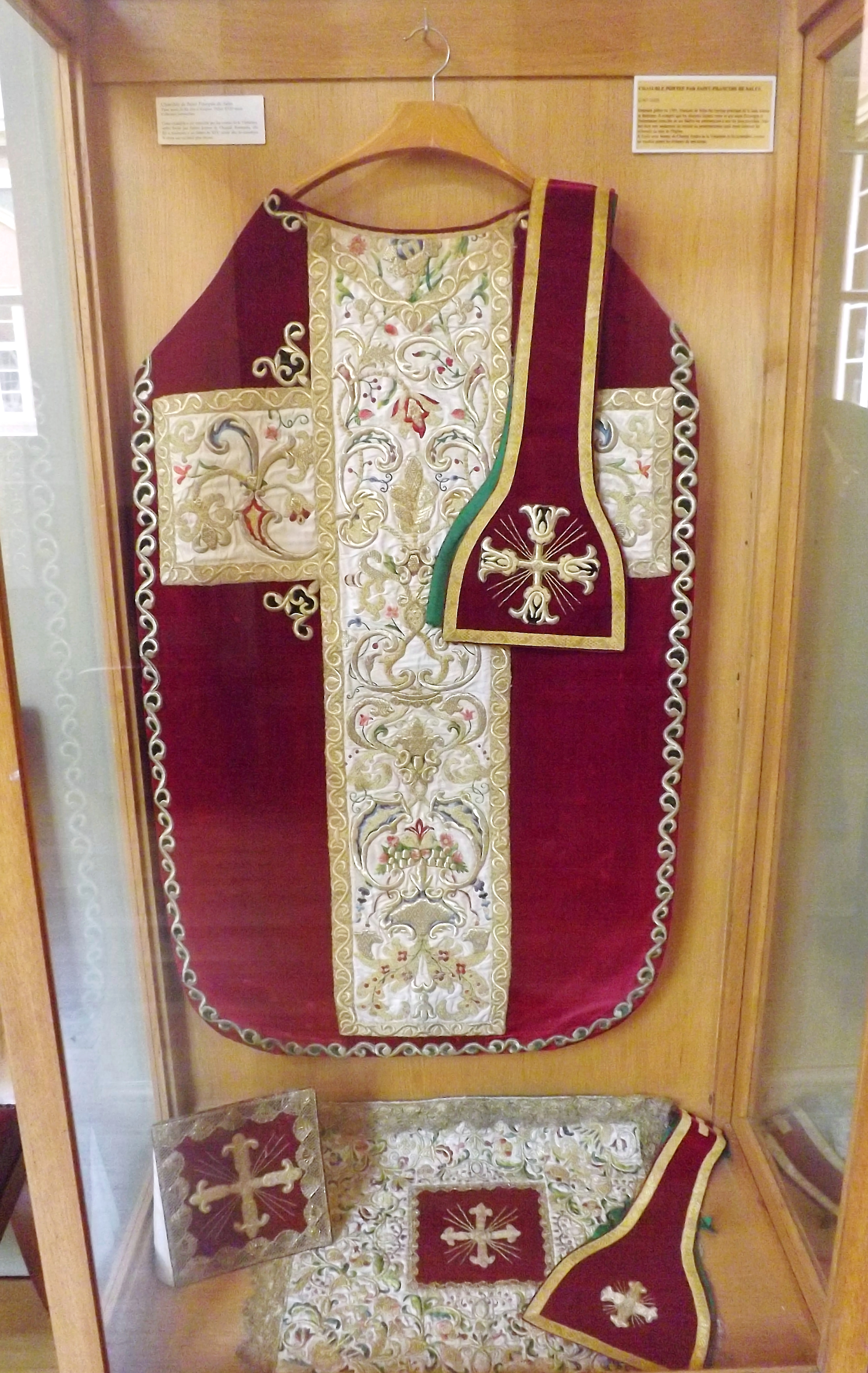 Saint-Francis de Sales’s chasuble, hosted in the city of Chambéry courthouse, in Savoie, France.